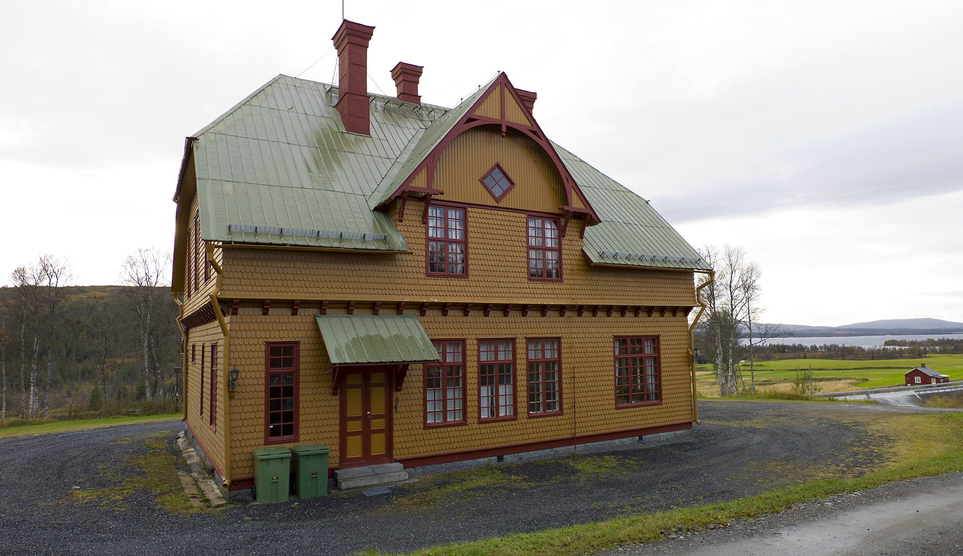 Historic hunting-lodge at Medstugan. Built in 1896-97.